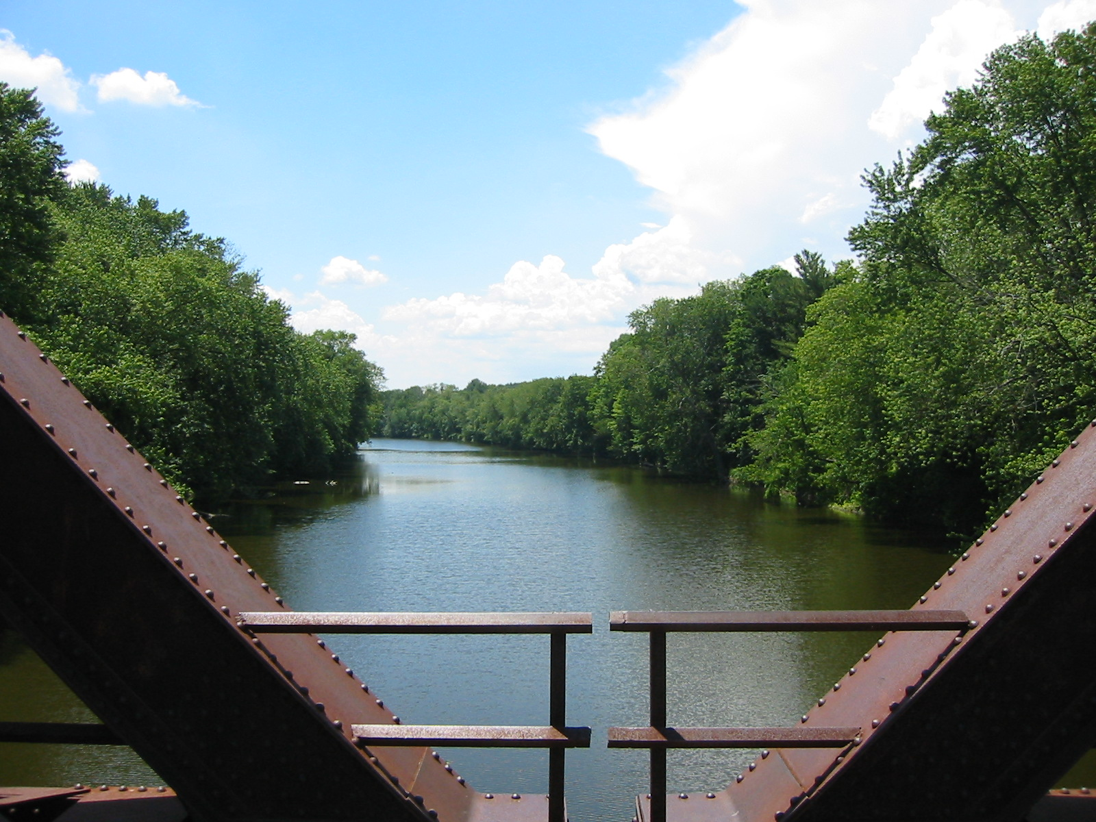 I took this picture and grant Wikipedia full permission to use it. I created this image and uploaded it. Wikipedia is free to use it.